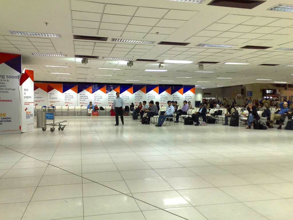 Delhi Airport